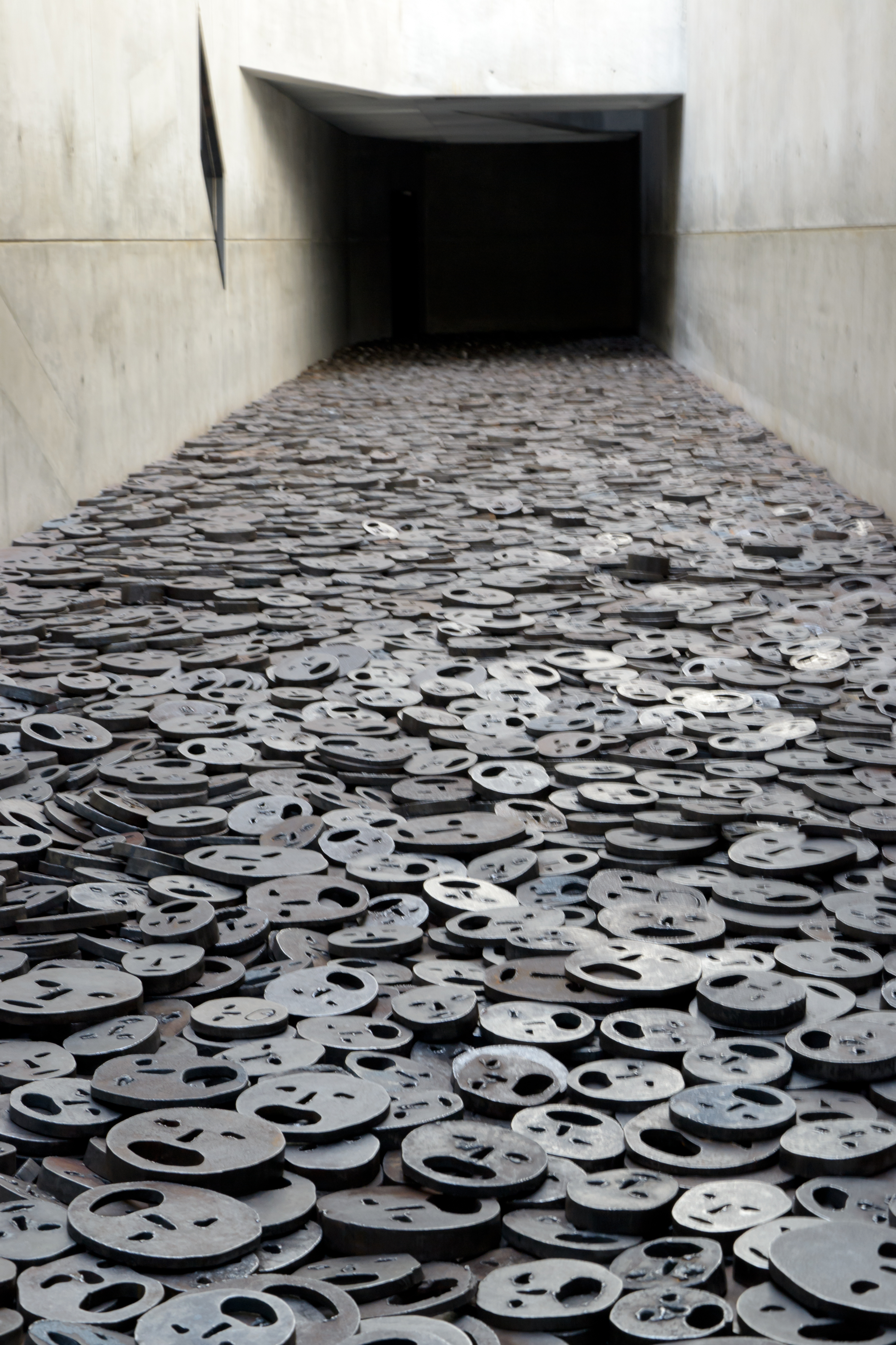 Shalechet - Fallen leaves, Jewish Museum, Berlin.